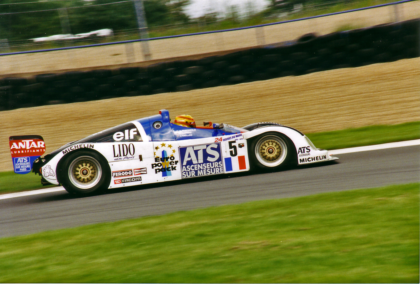 Henri Pescarolo Courage C36 Donnington 5th July 1997